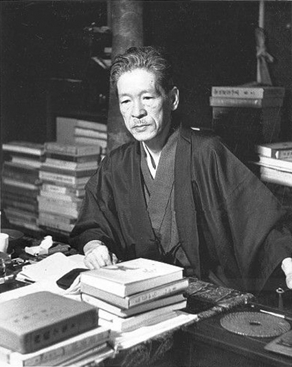 Shūsei Tokuda, 1938. Shūsei Tokuda (1872-1943) was a Japanese writer.